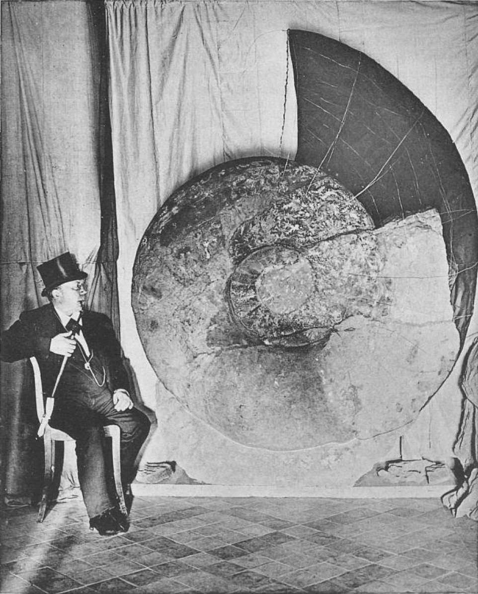 Original German description from Landois (1895:108)